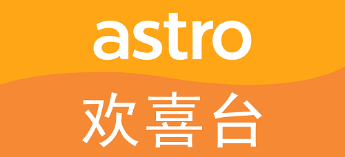 Channel logo of Astro Hua Hee Dai